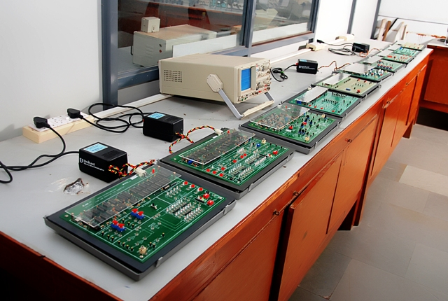 control systems lab of rizvi college of engineering's electronics engineering department.